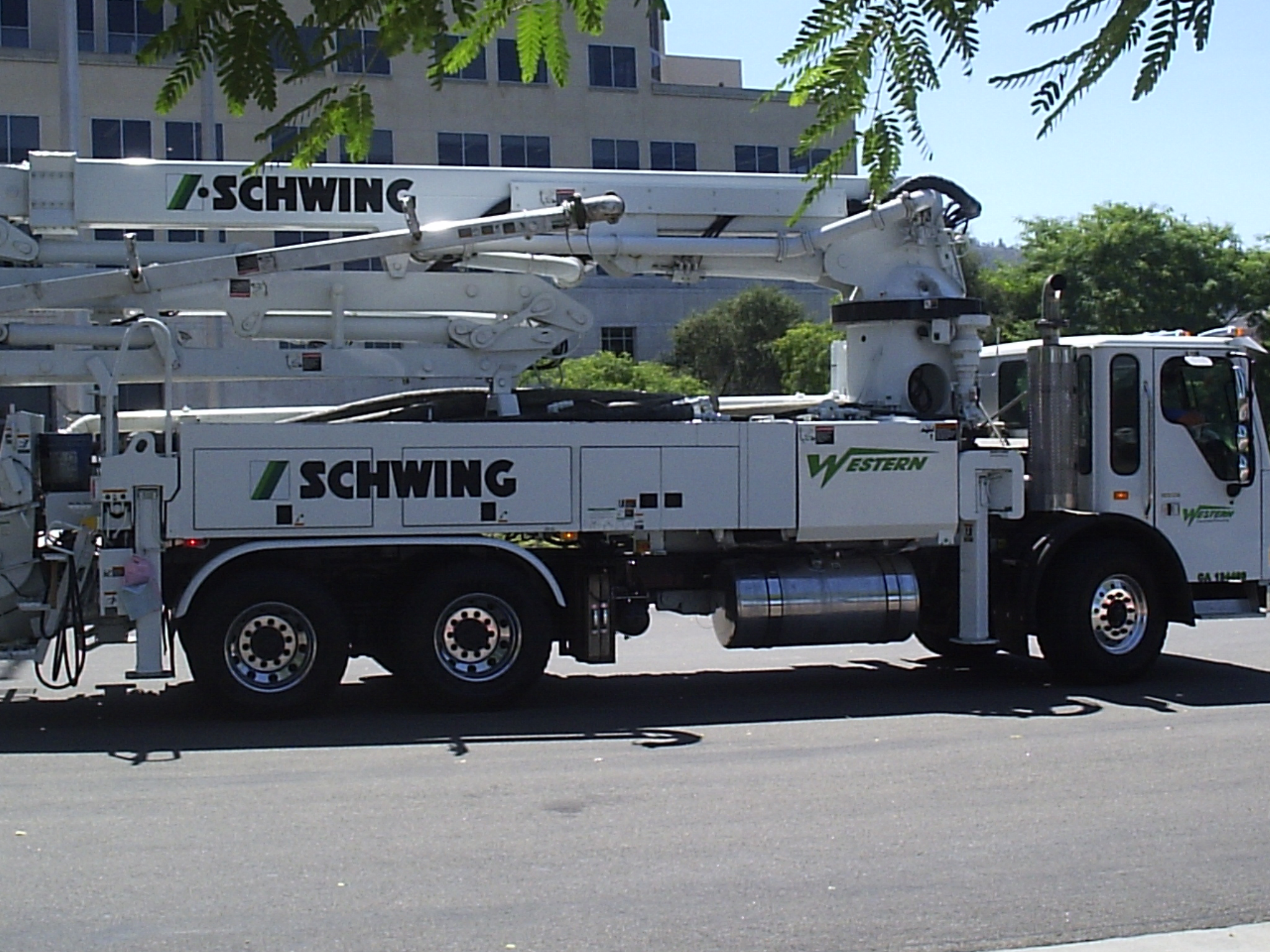 Wayne and Garth would be proud of this company.